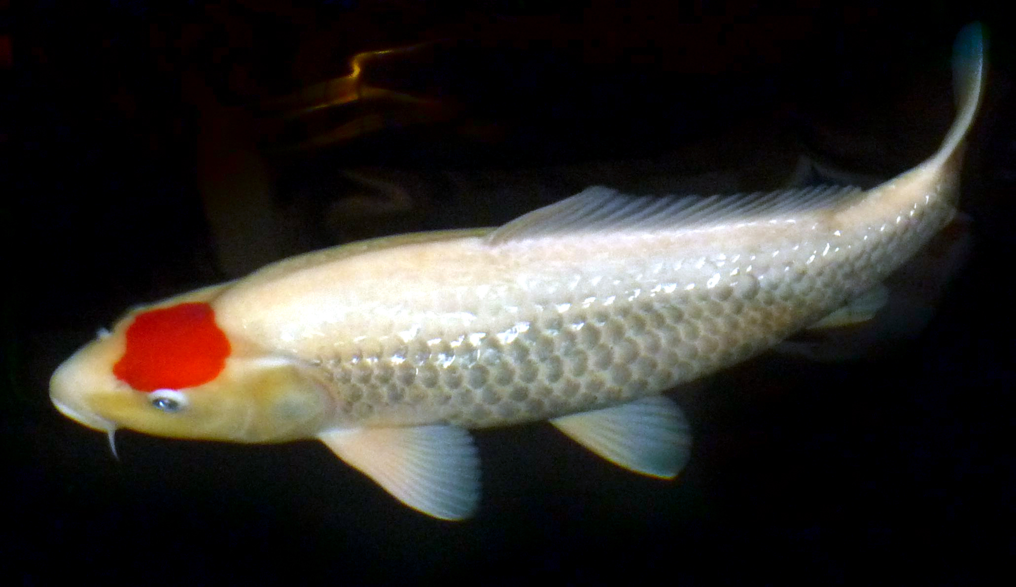 Tancho Kohaku.